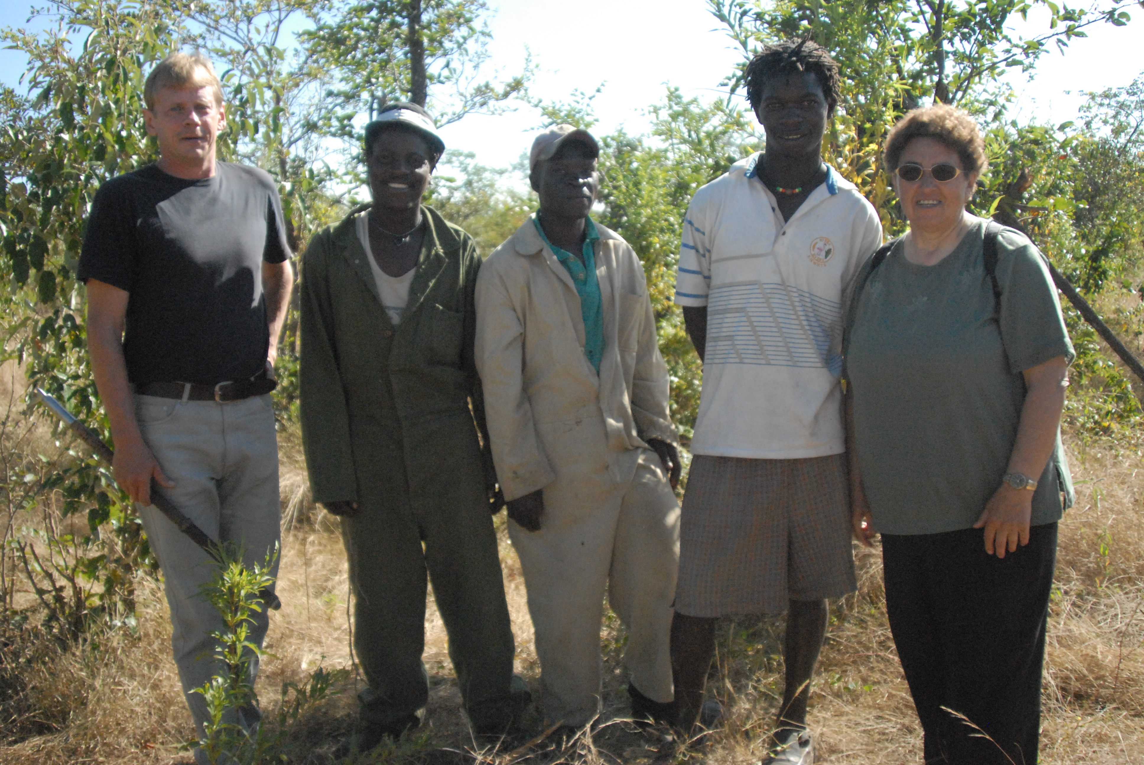 Dan Koehl elephant crew from Elephant Experience, Jutta Kirchner, Victoria Falls 2005